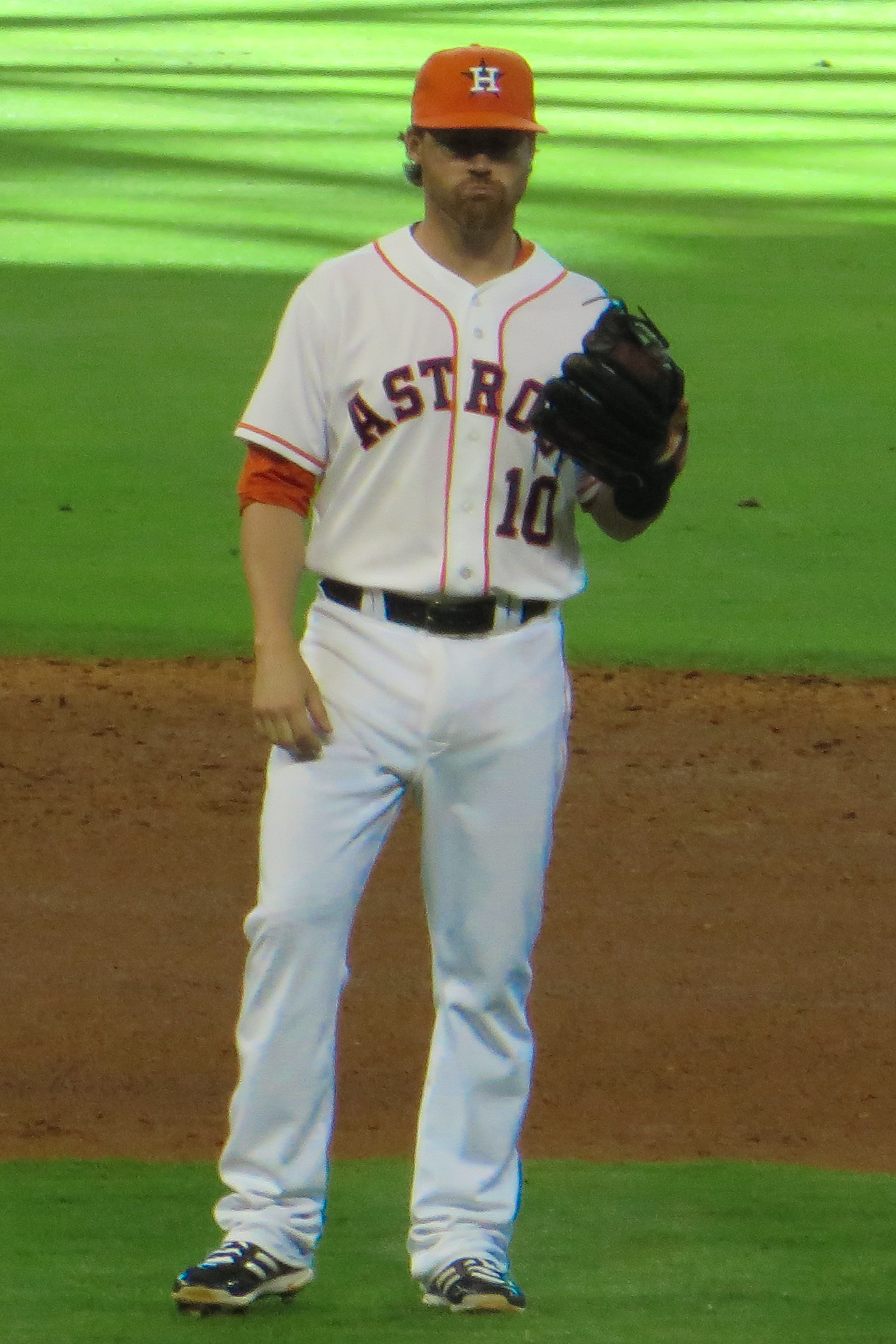 Houston Astros shortstop Jake Elmore, Minute Maid Park, June 29, 2013.